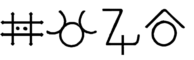 Various alchemical symbols for zinc